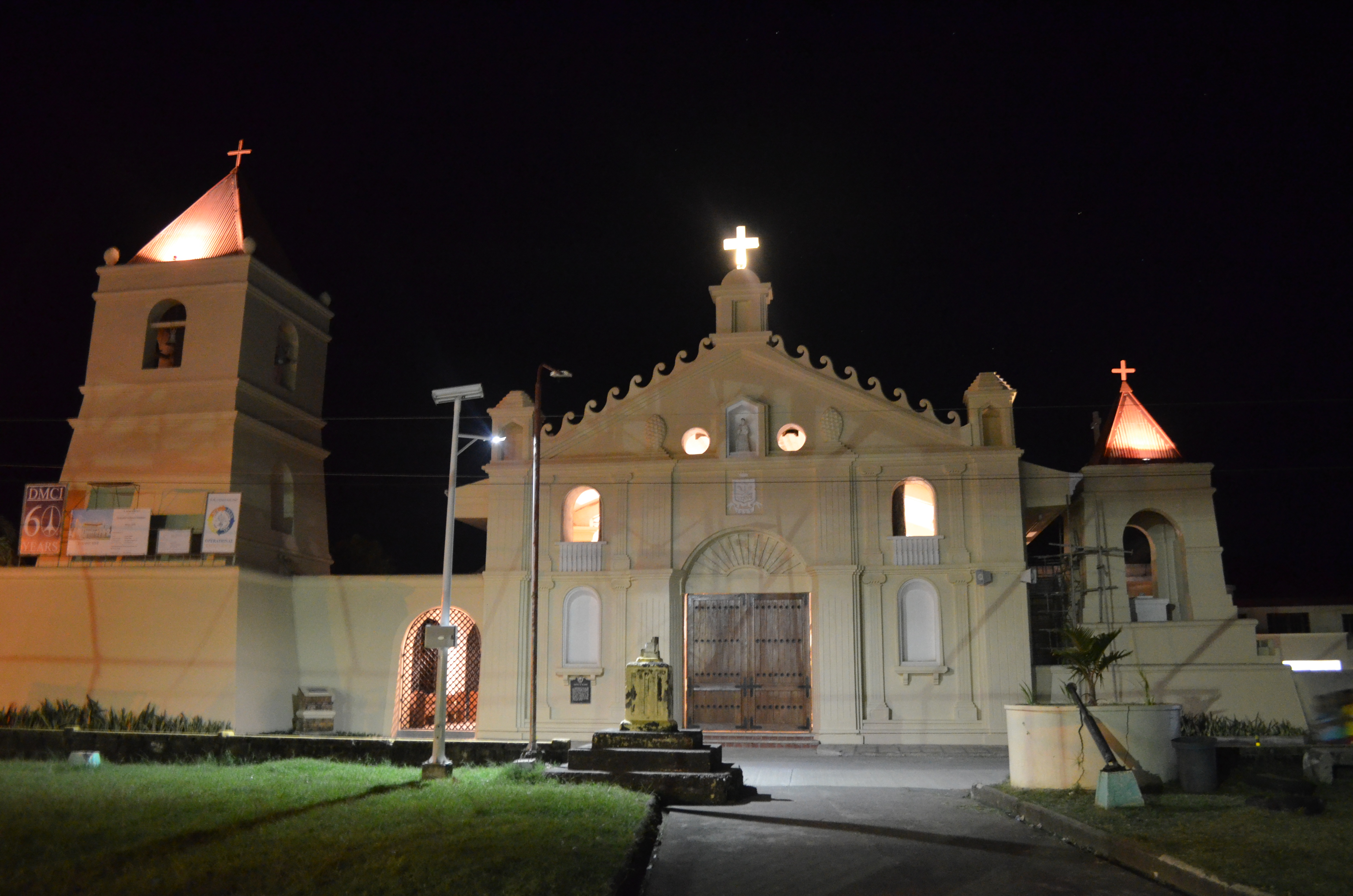 The Balangiga Church, Balangiga, Eastern Samar, Philippines during at night